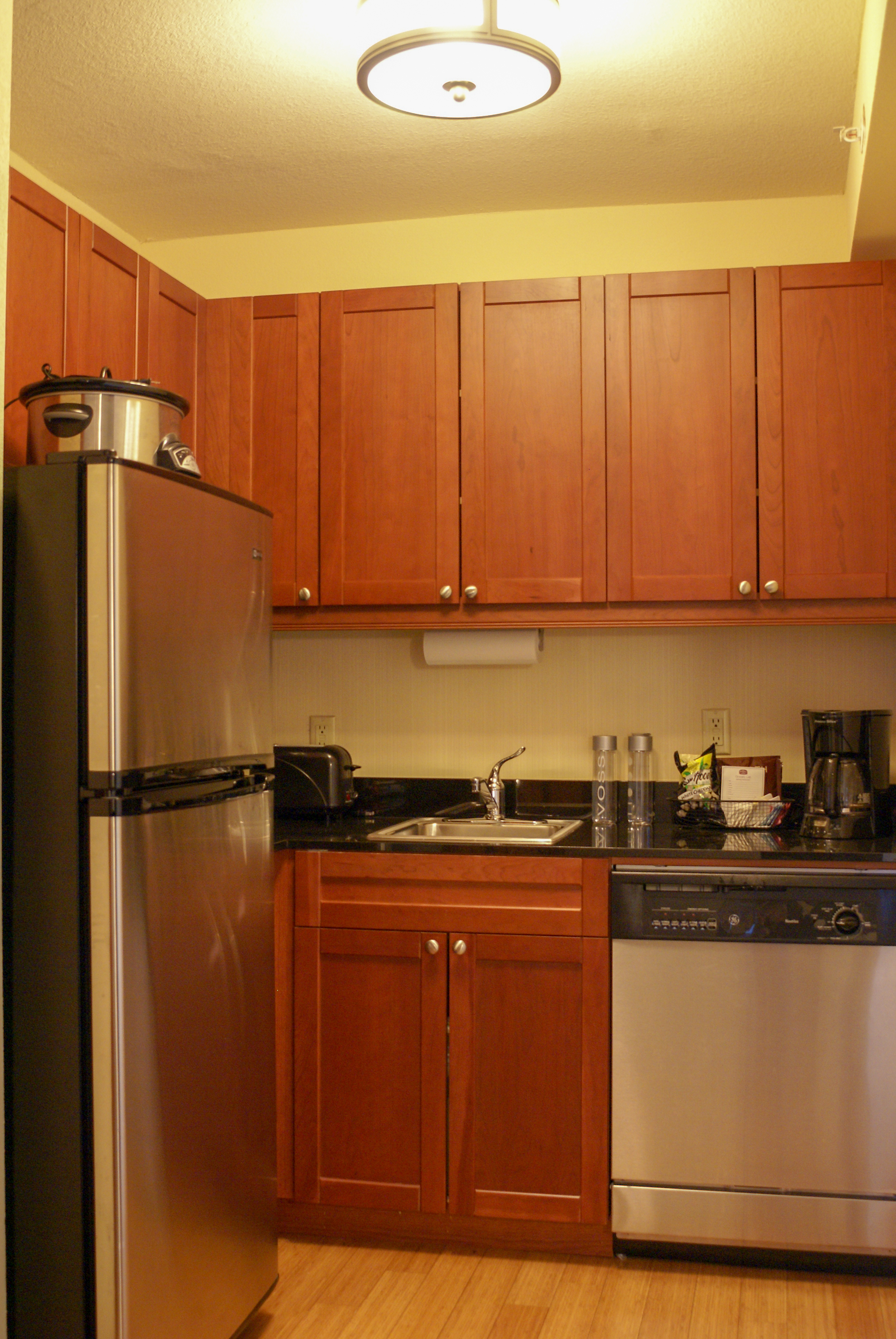 Hotel room kitchenette